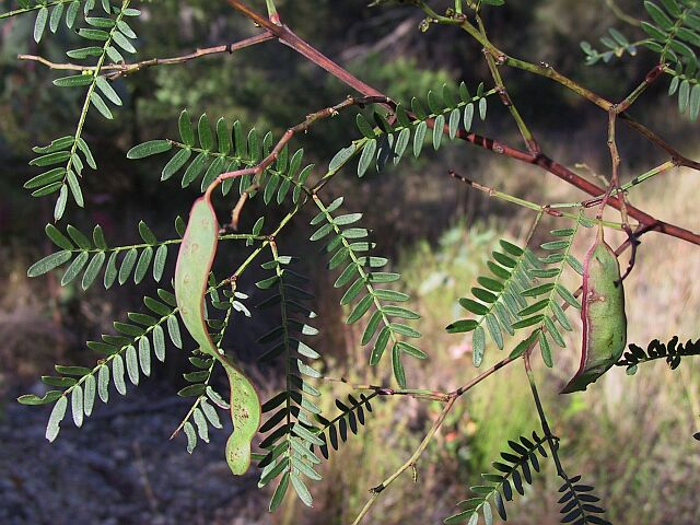 Acacia terminalis subsp. angustifolia